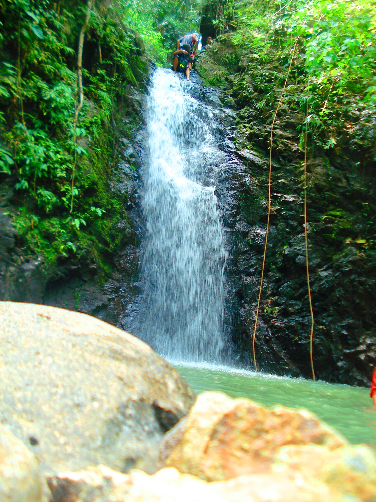 Dullian Falls 1st level, Barangay Dullian Zamboanga City